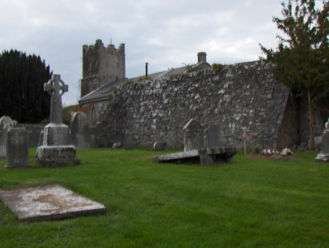 Cemetery of Terryglass